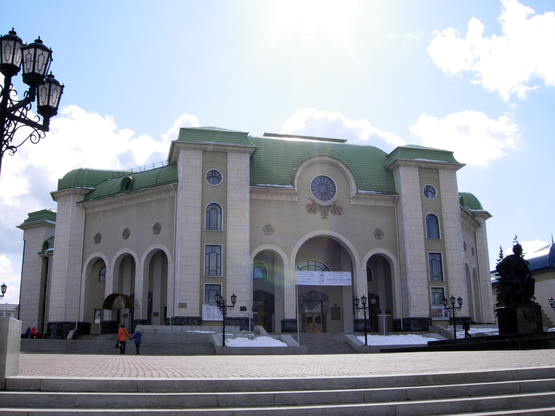 Bashkir State Academic Theatre of Drama